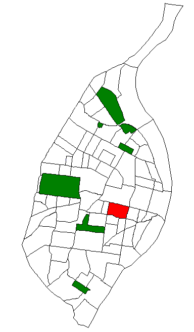 Map of St. Louis Neighborhood #31